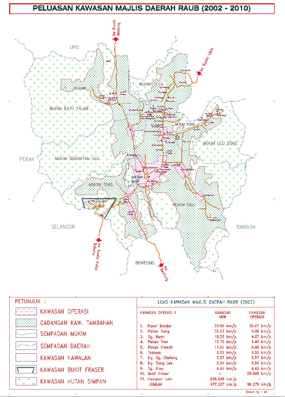 Map of Raub